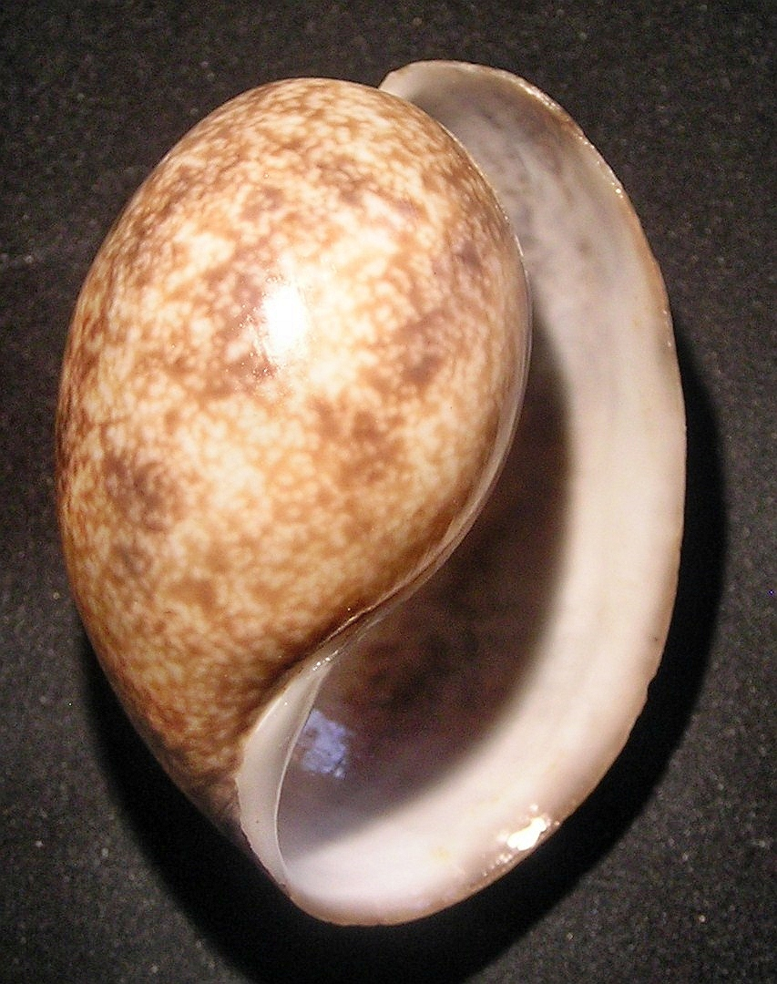 Bulla ampulla Linnaeus, 1758 ; a bubble shell in the family Bullidae; Philippines